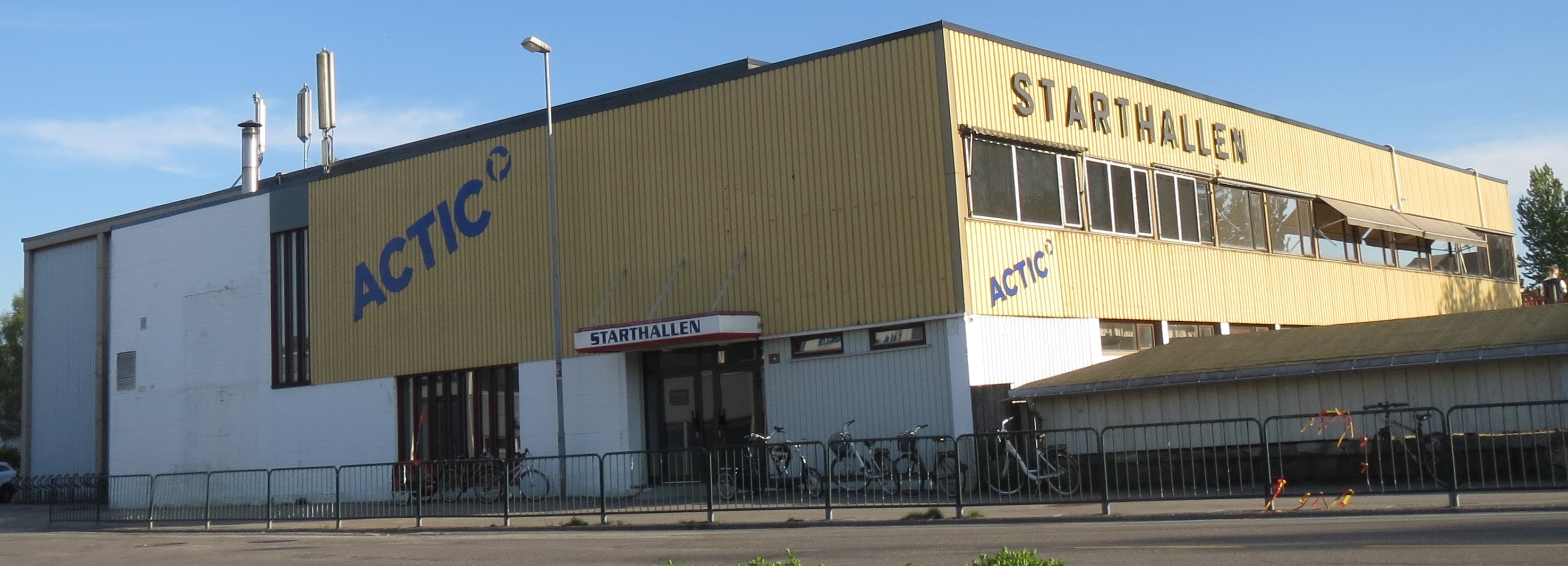 Starthallen, Kristiansand, Norway